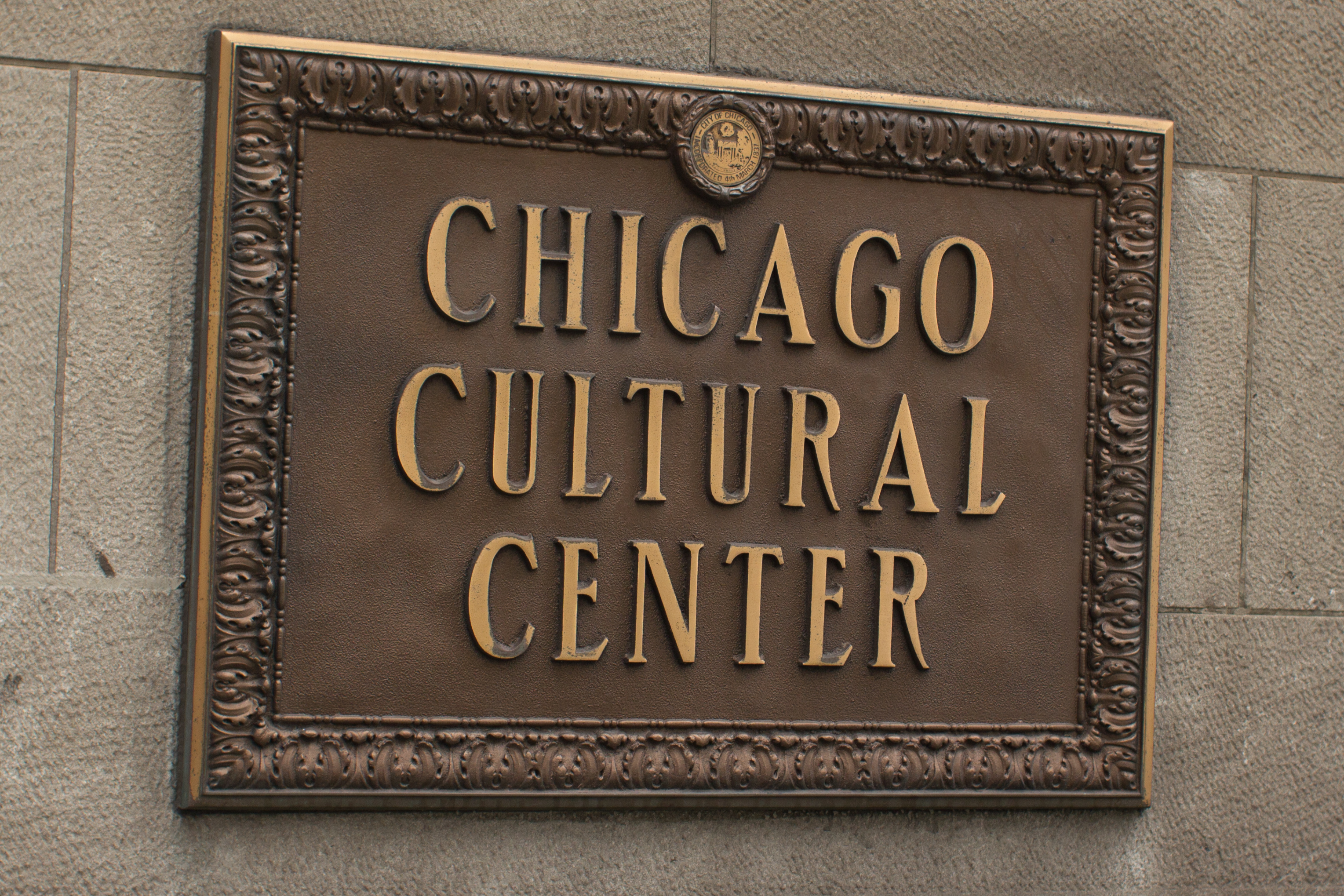 Chicago Public Library, Central Building